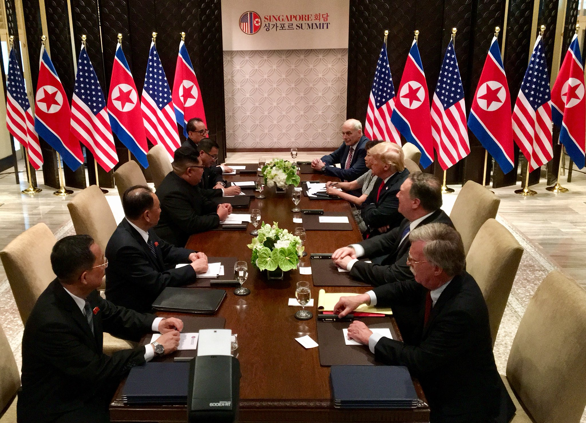 Meeting between United States North Korea delegations in Singapore on June 12th 2018